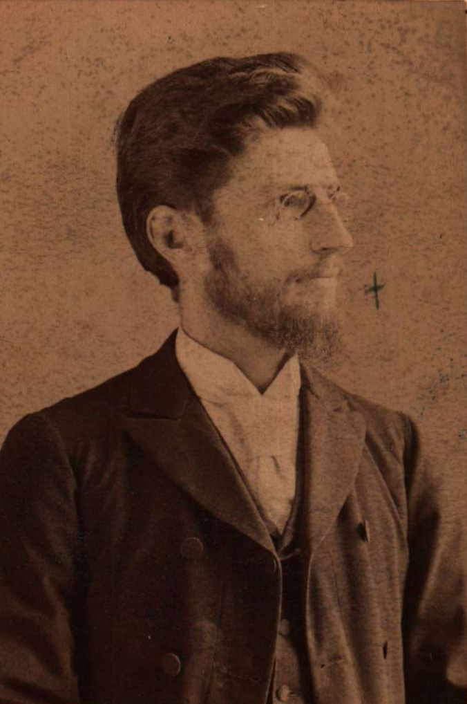 Bulgarian actor Vasil Nalburov (1863-1893